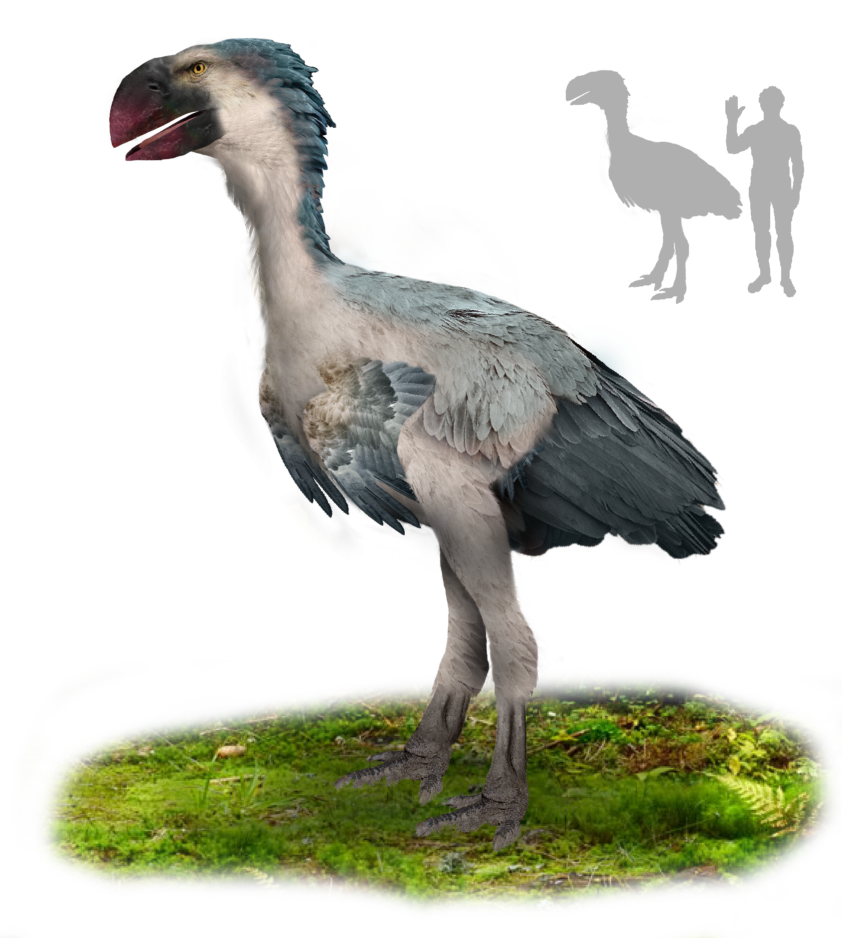 Artist's impression of a Gastornis.